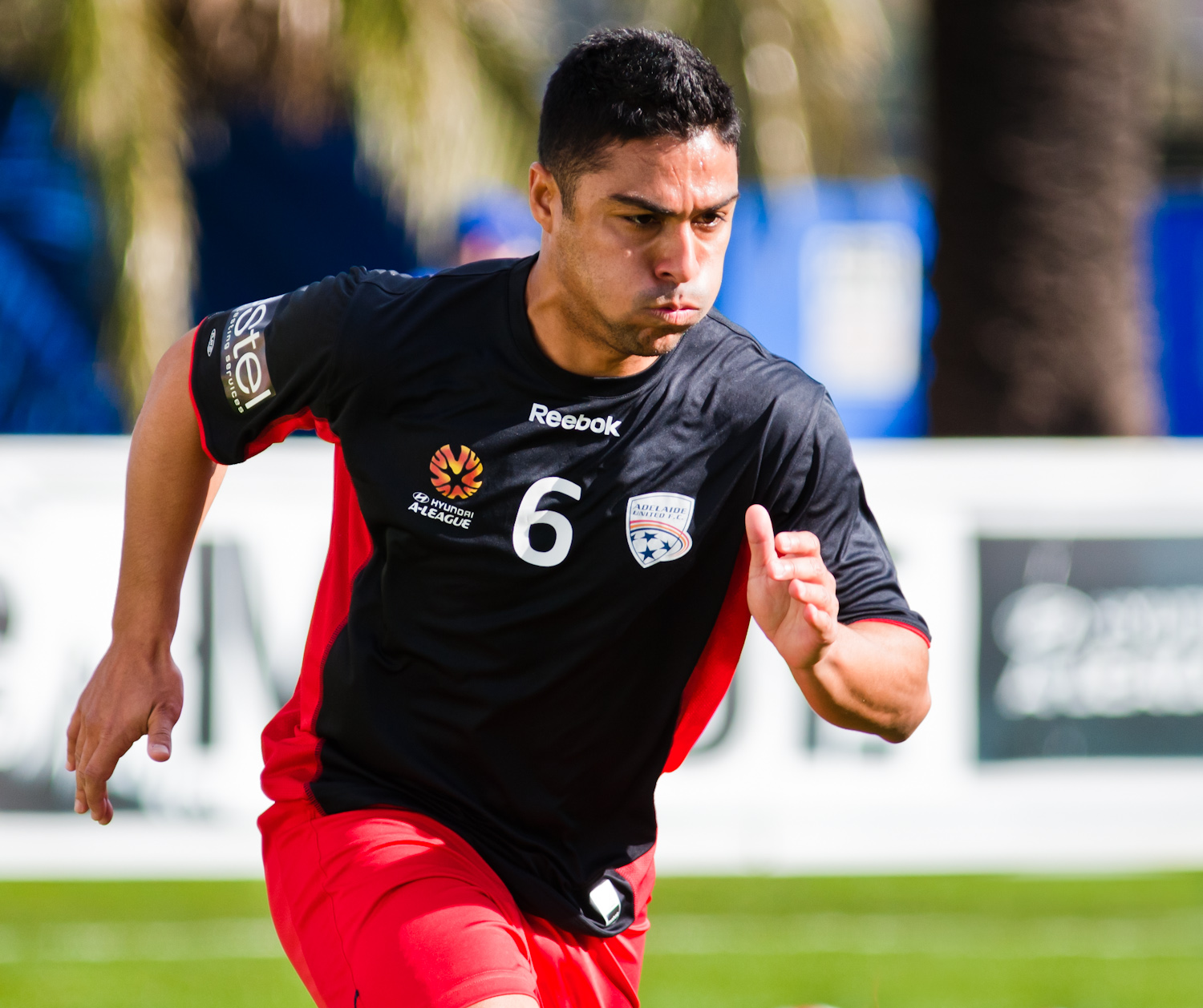 Cássio Oliveira warming up with Adelaide United before an A-League Round 2 game against the Central Coast Mariners.